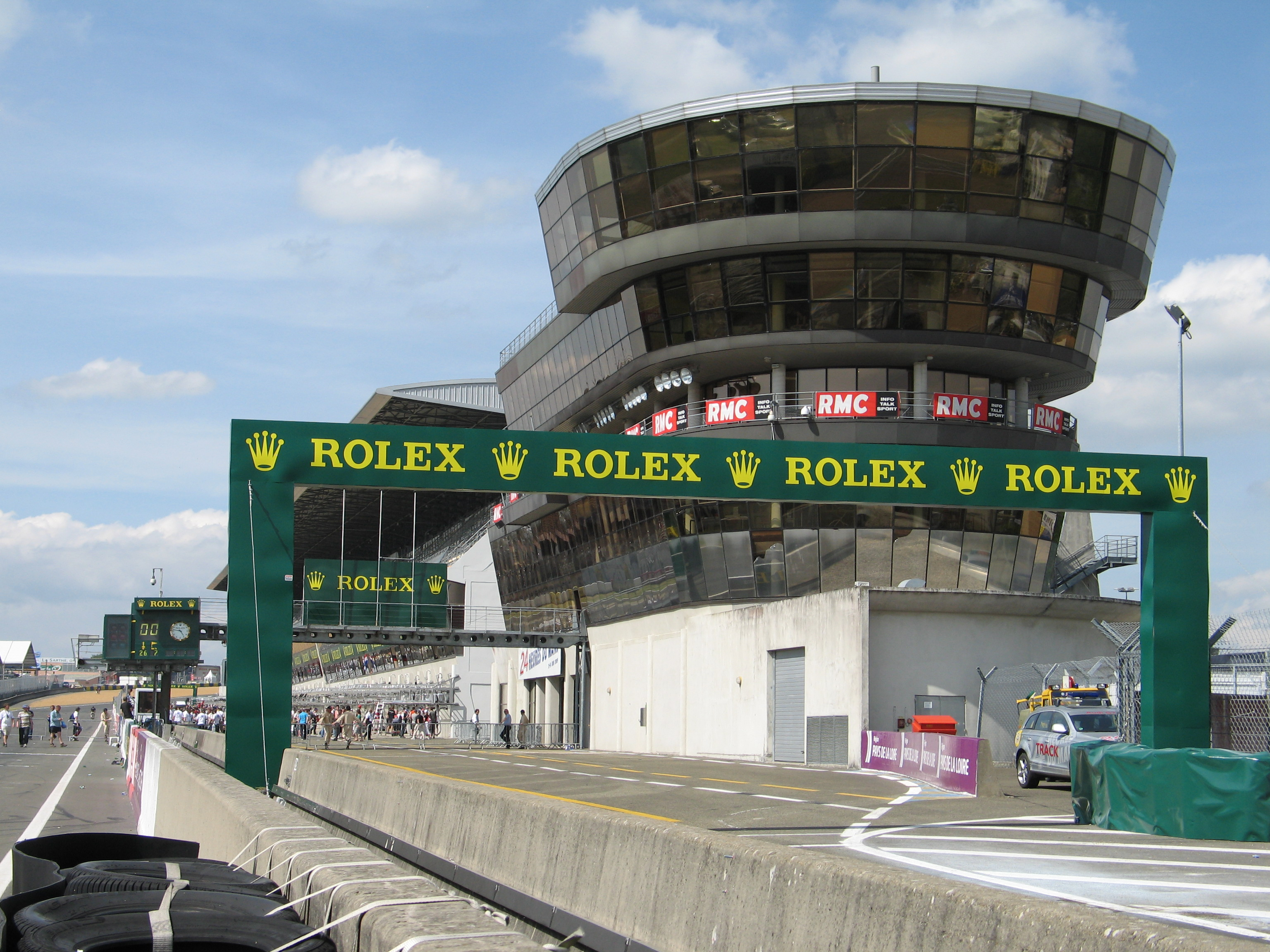 The Race Control and Garage complex of the Circuit de la Sarthe following the 2009 24 Hours of Le Mans.